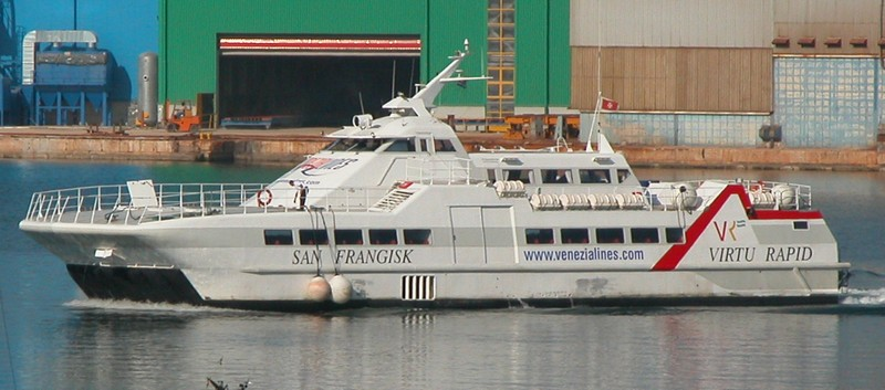 The M/V San Frangisk in Pula, Croatia IMO Number: 8815918 MMSI Number: 249063000 Callsign: 9HC13 Length: 36 m Beam: 12 m